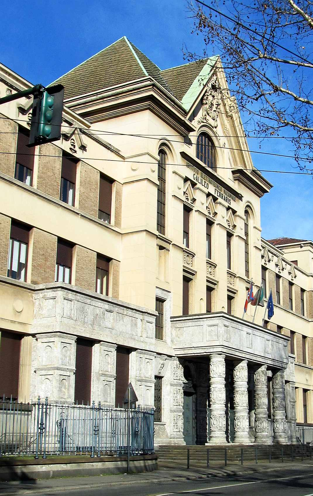 Istituto elettrotecnico nazionale Galileo Ferraris - Turin, Italy